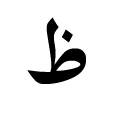 Letter ẓā' of the arabic abjad